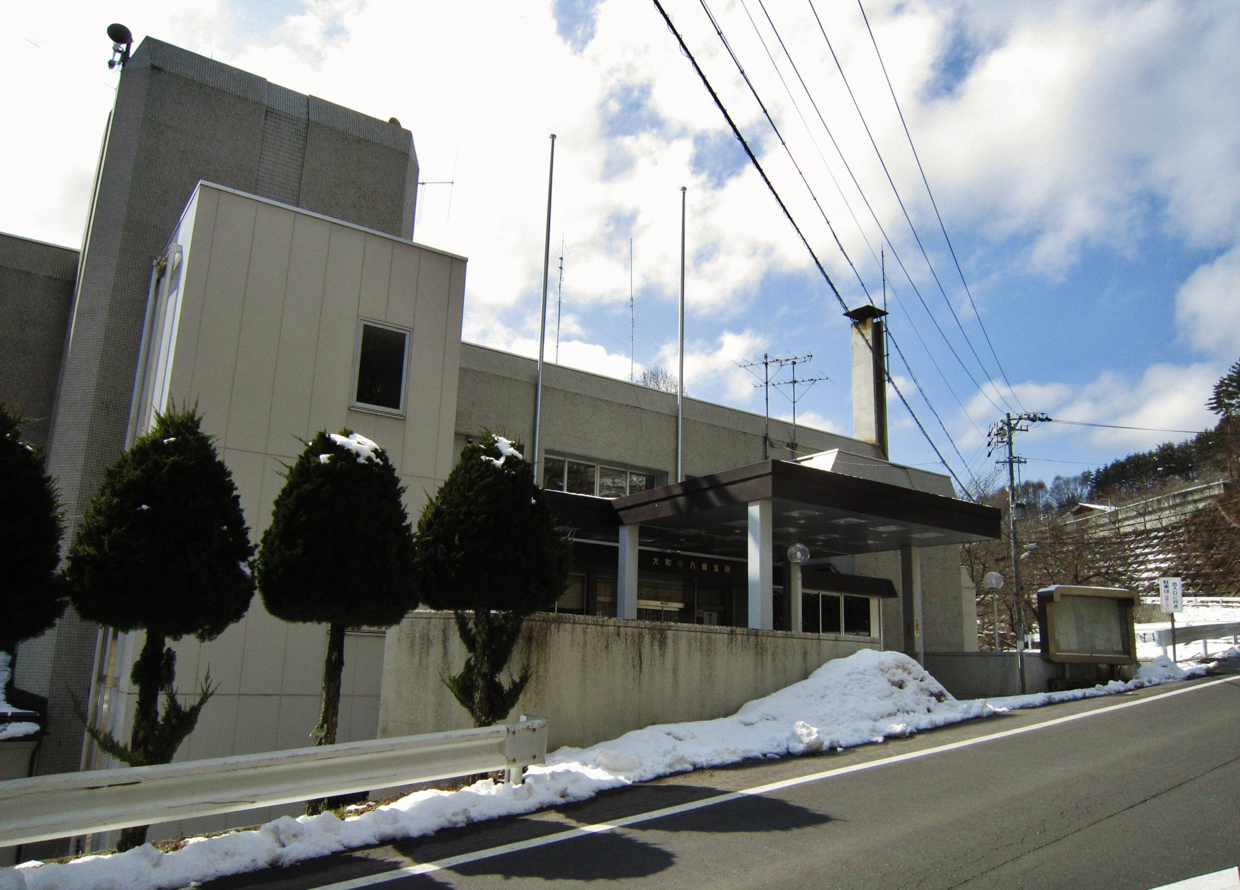 Ōmachi city Yasaka branch office.